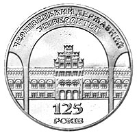 Coin of Ukraine